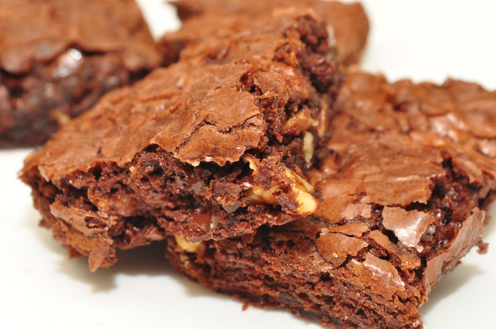 Brownies...yawn...boooring.